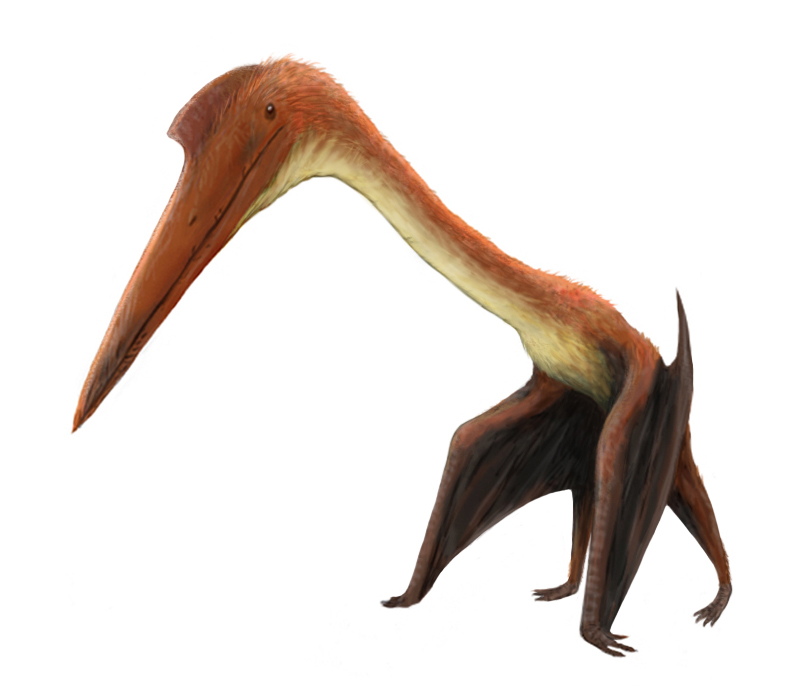 Phosphatodraco mauritanicus restoration.